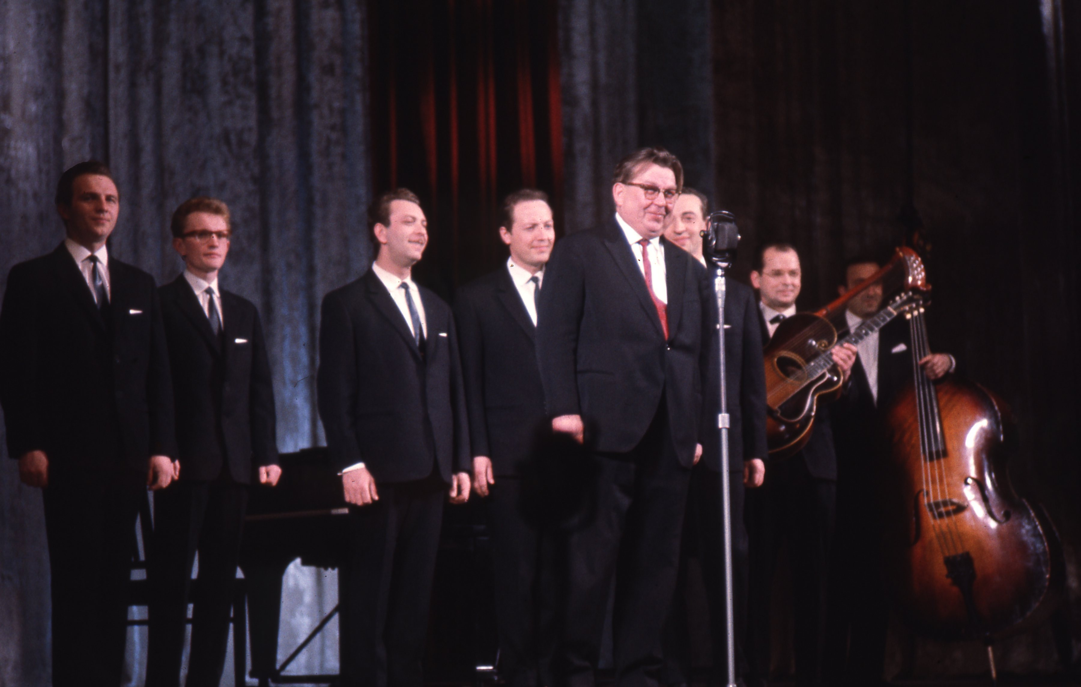 These images were taken by Thomas T. Hammond during his trip to the Soviet Union. This specific image features Vasily Solovyov-Sedoi and a group of musicians.